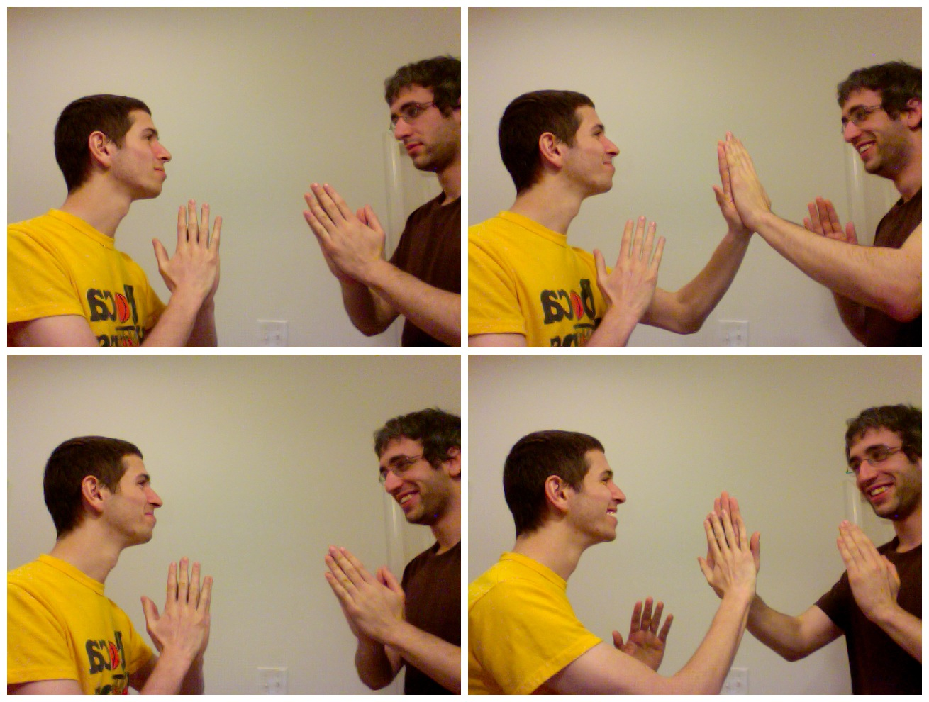 Two young men playing pat-a-cake.